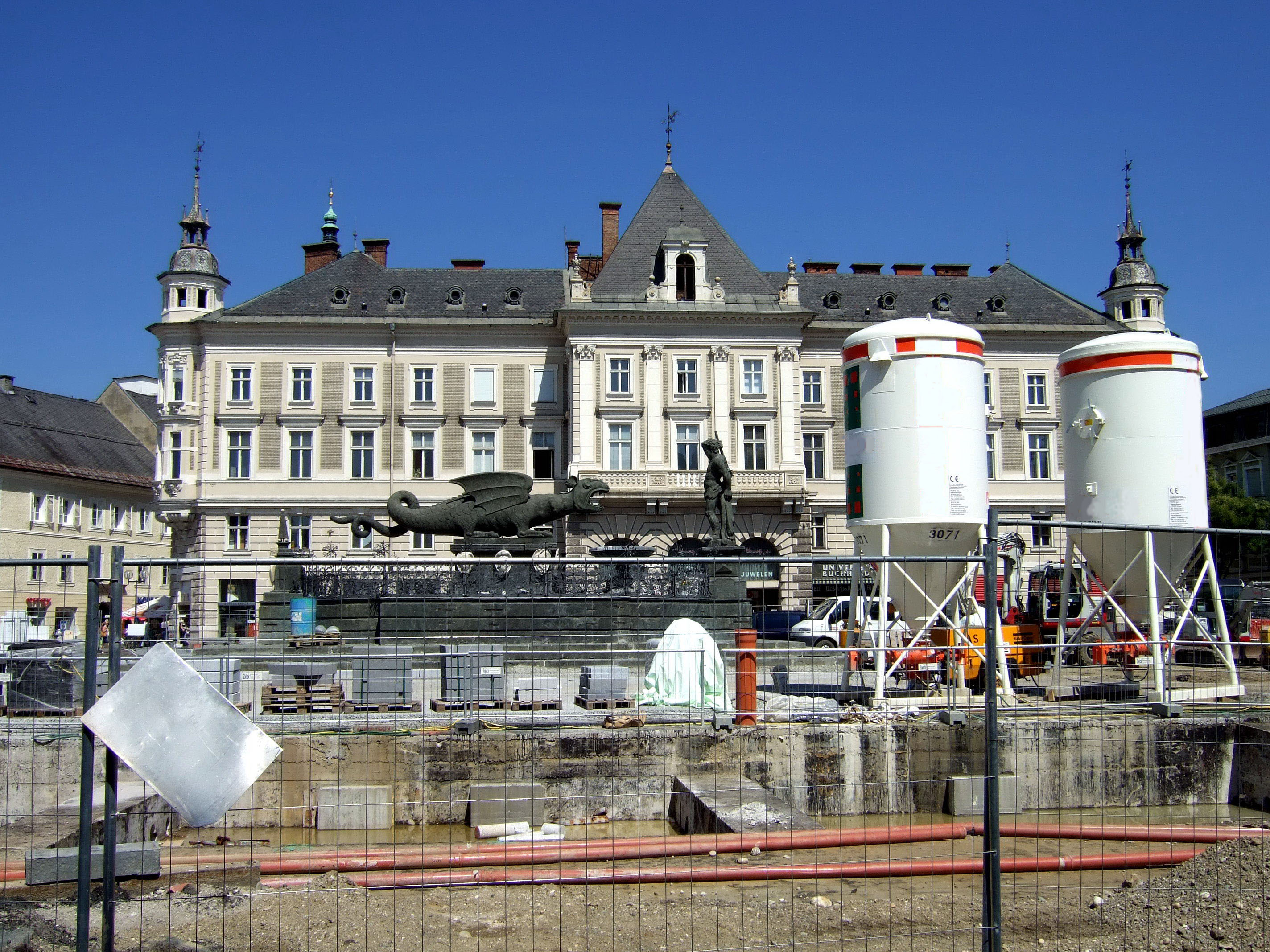 Neuer Platz (under construction in 2007) in Klagenfurt inner city, district Klagenfurt, Carinthia, Austria